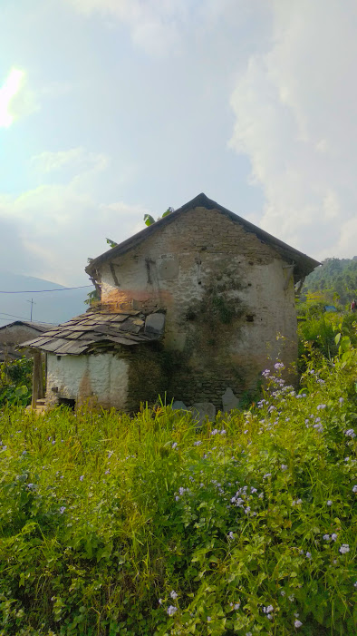 traditional house